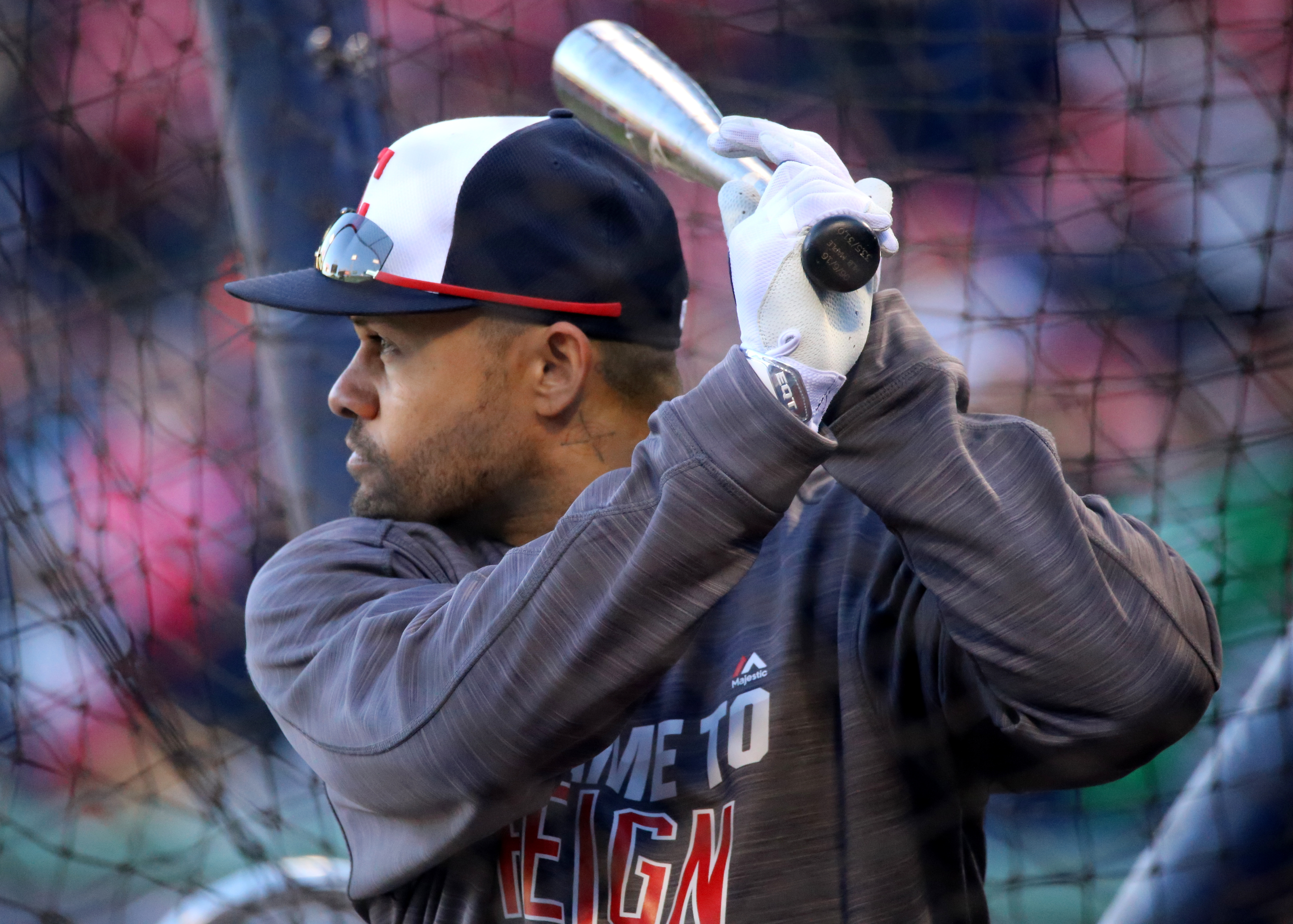 Indians outfielder Coco Crisp takes batting practice before Game 3 of the ALDS.